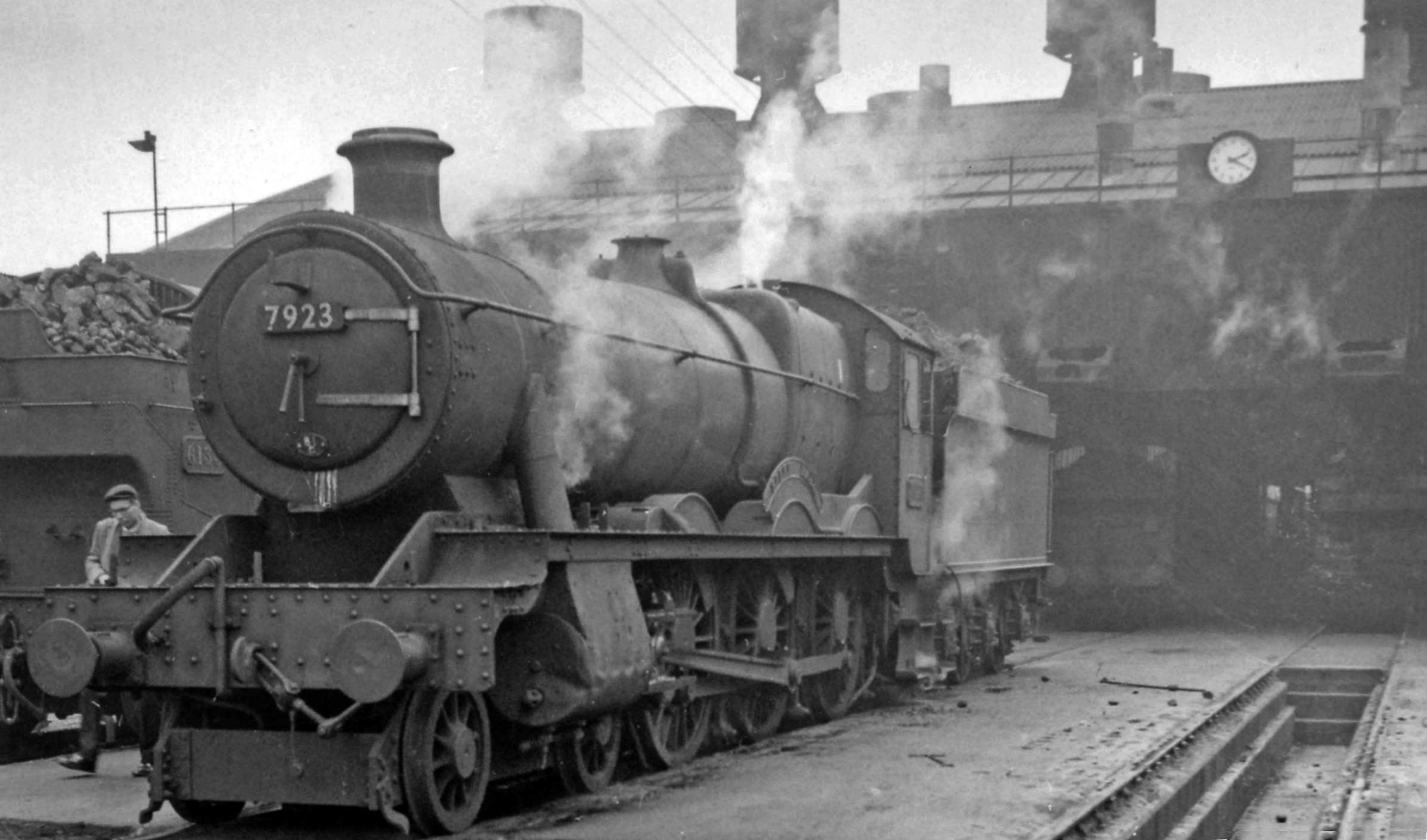 'Modified Hall' 4-6-0 at Southall Locomotive Depot. View eastward, west end of Shed. No. 7923 'Speke Hall' was built 9/50 and withdrawn 6/65, being one of the last 10 of the Class to be built. The Depot was closed to steam on 3/1/66 but used as a Diesel depot for another 10 years, therafter becoming the Southall Railway Centre - for preserved locomotives and stock.